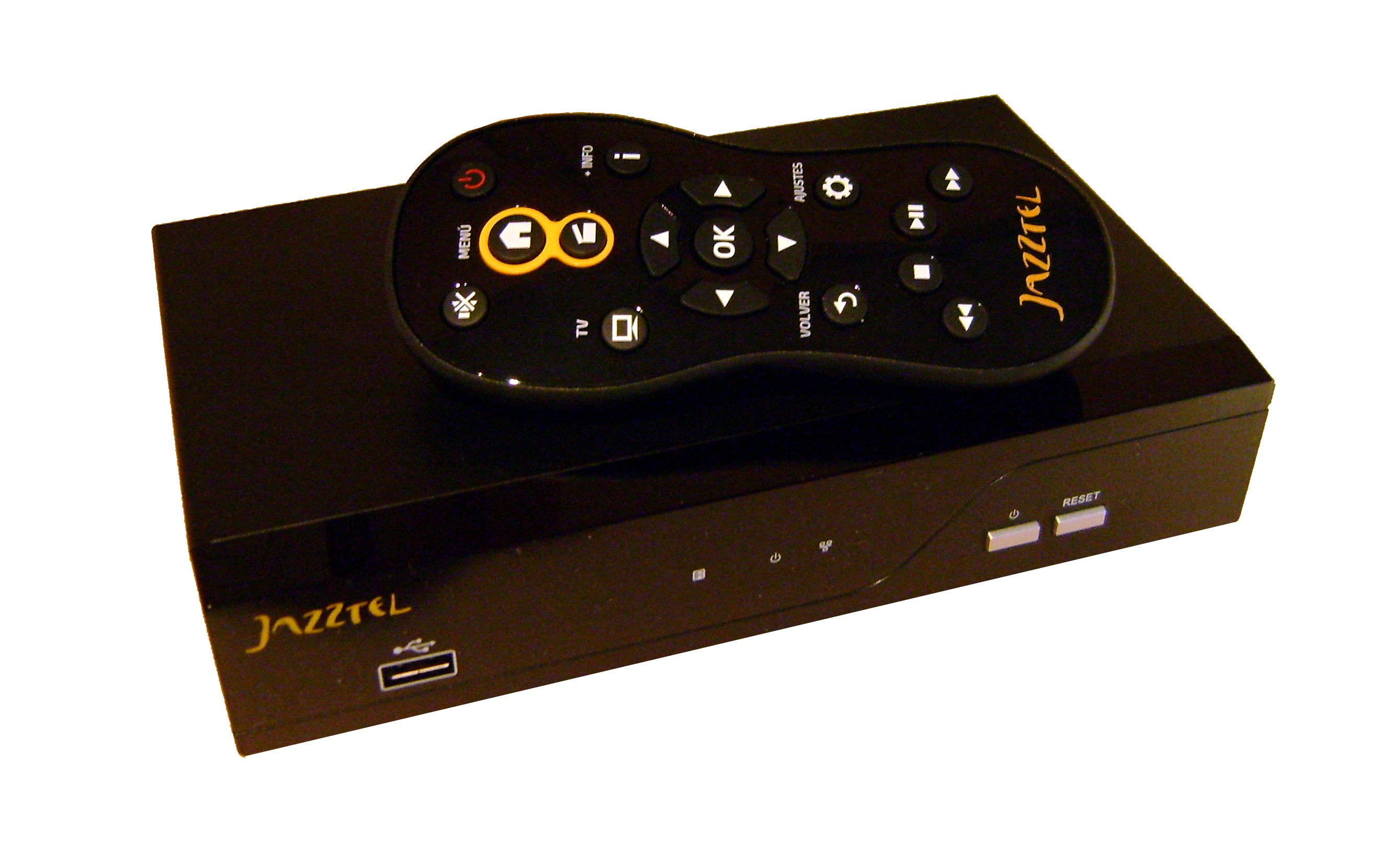 Jazzbox, the set top box for Video on Demand of telecommunications operator Jazztel.